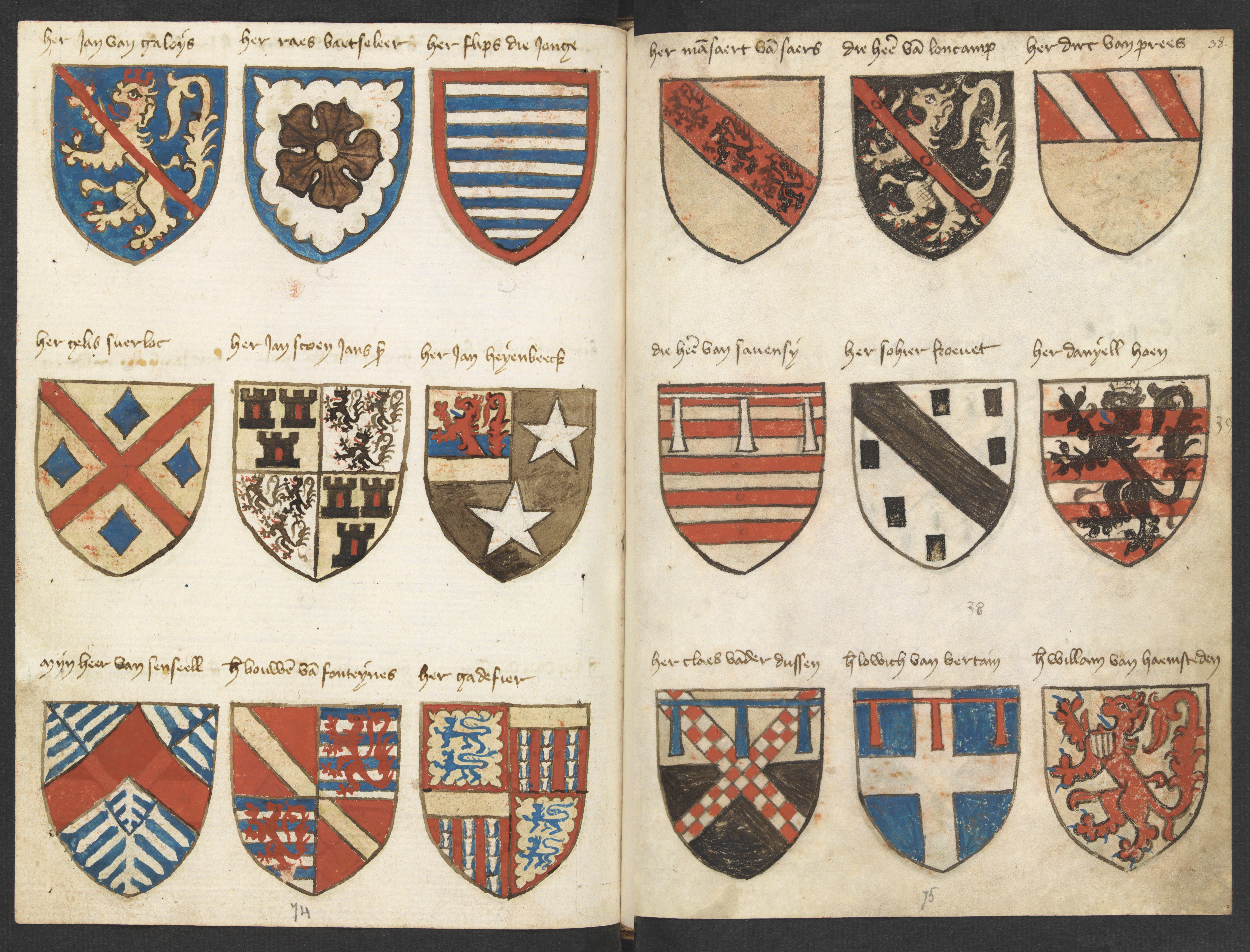 Lefthand side folio 037v; righthand side folio 038r from the Beyeren armorial / Wapenboek Beyeren